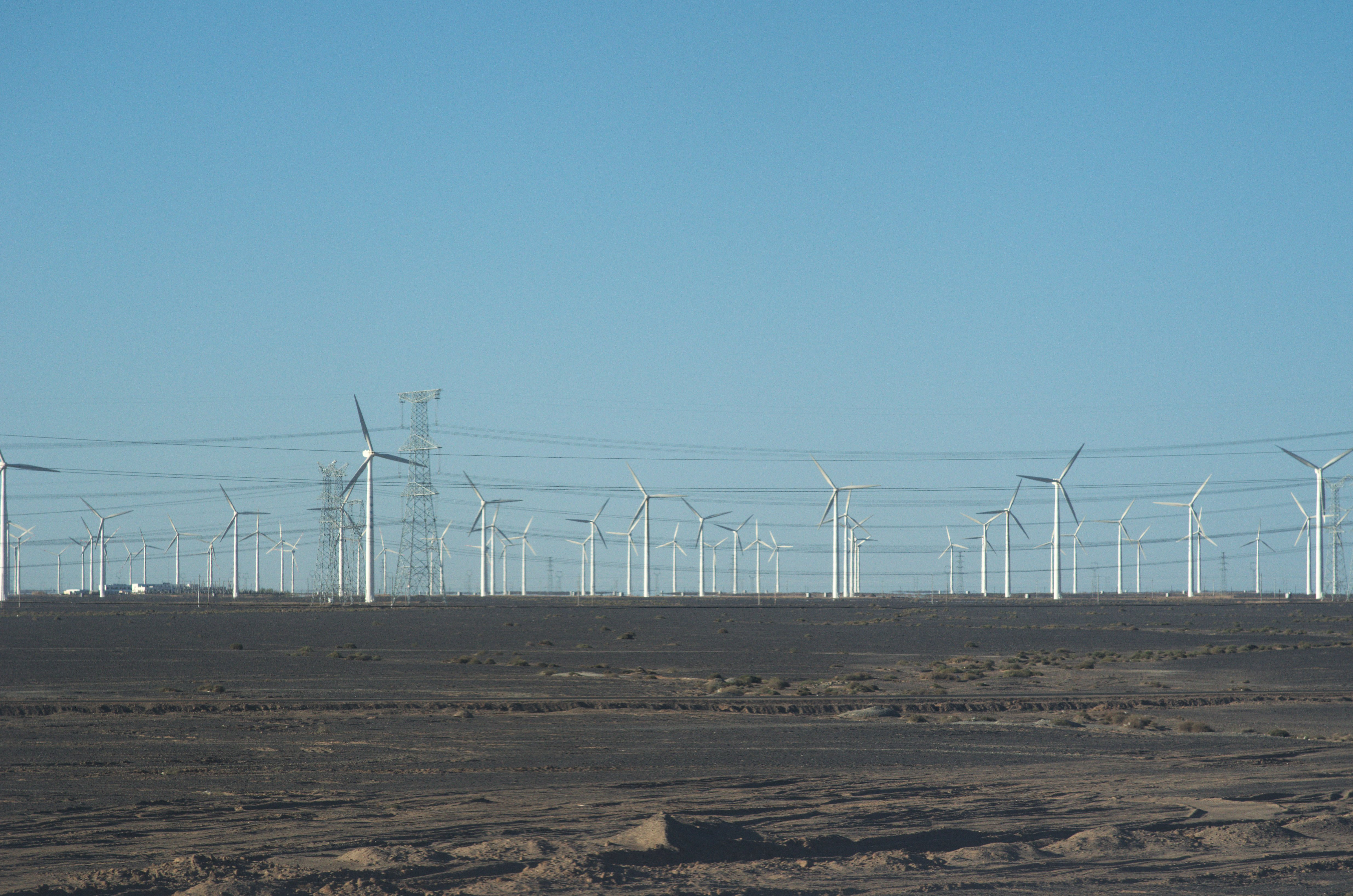 More than 200 Windturbines at Guazhou (瓜州县) wind farm, Gansu province, China